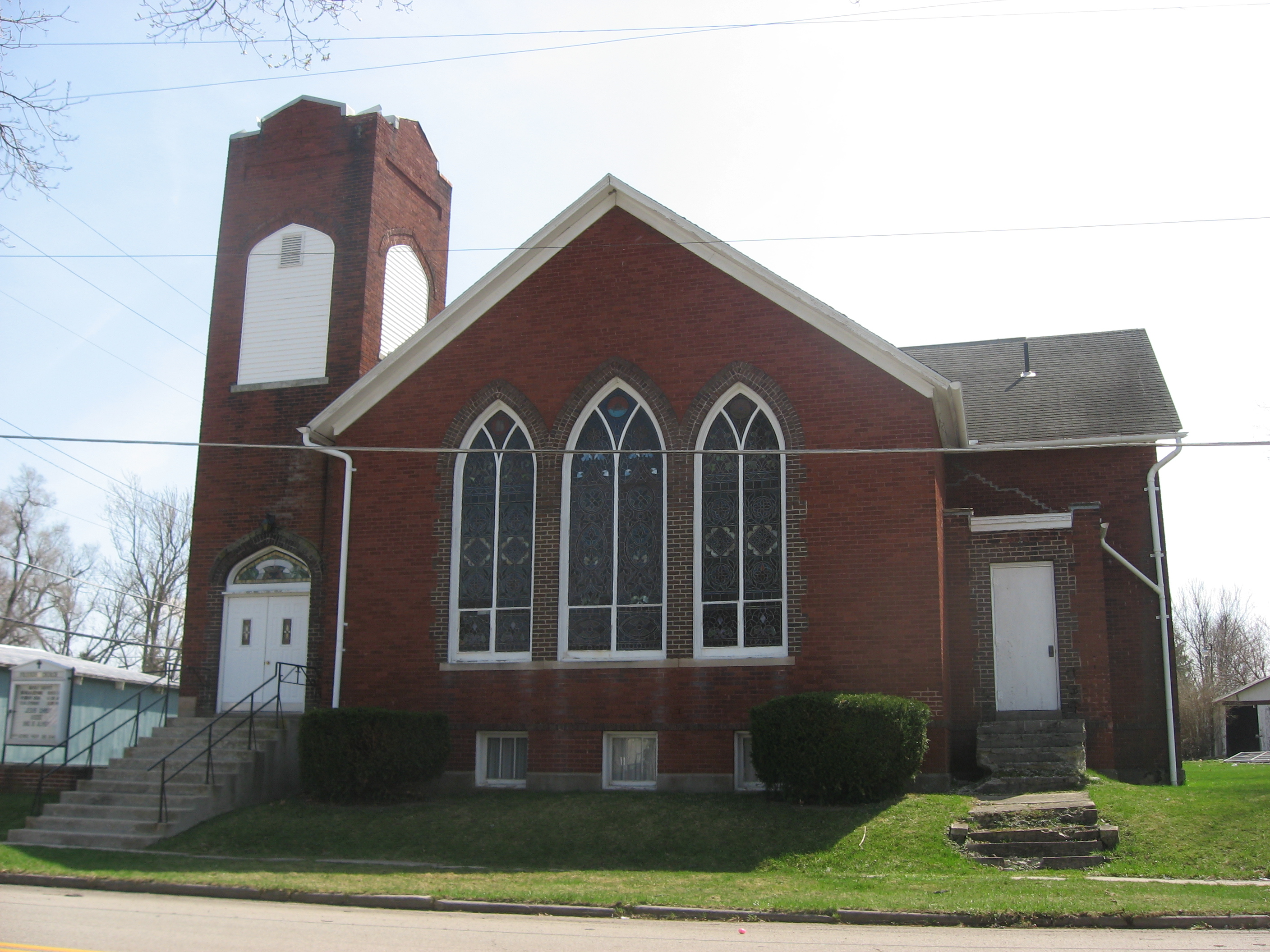 West Mansfield Friends Church, located on the southwestern corner of Center (County Road 8) and Dean Streets in West Mansfield, Ohio, United States. It was built in 1912.